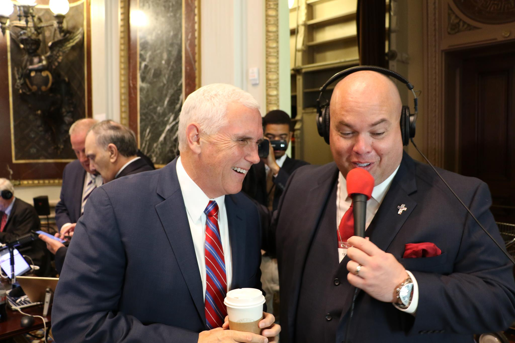 Philadelphia talk show host Chris Stigall interviews Vice President Mike Pence at the White House Executive Office Building.